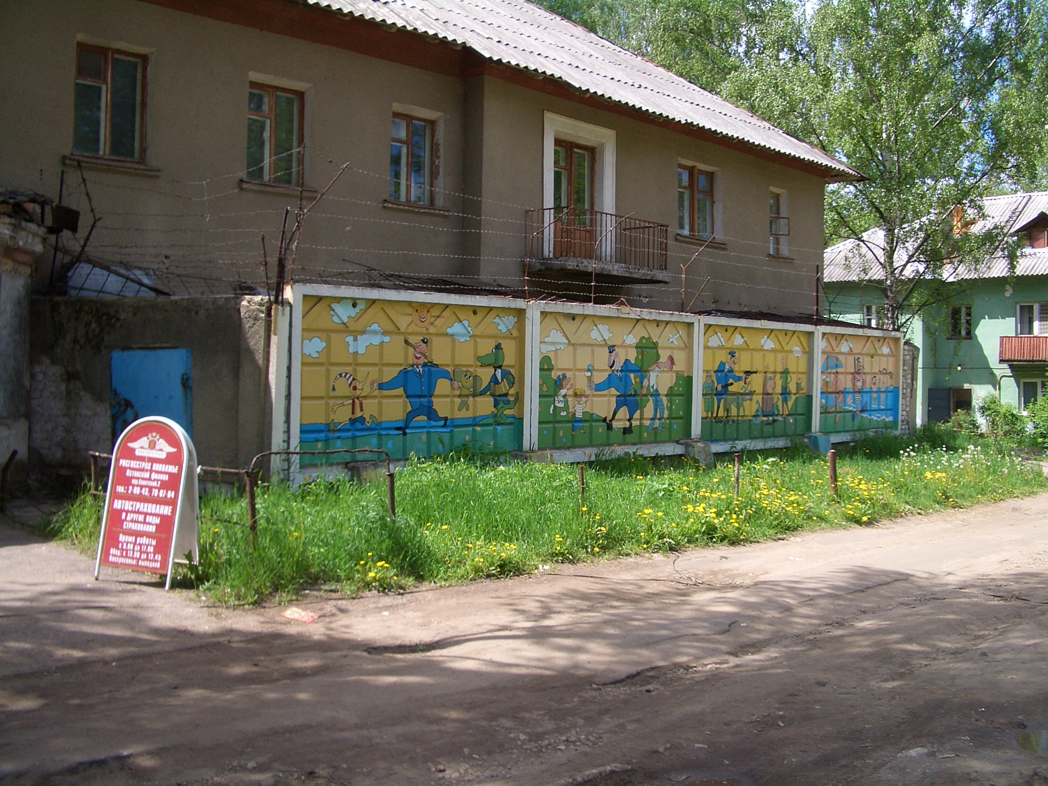 A police facility (vytrezvitel - the detention place for persons picked for being drunk in public) in Kstovo, Russia. The fence has been decorated by local schoolchildren, under the guidance of their teacher.